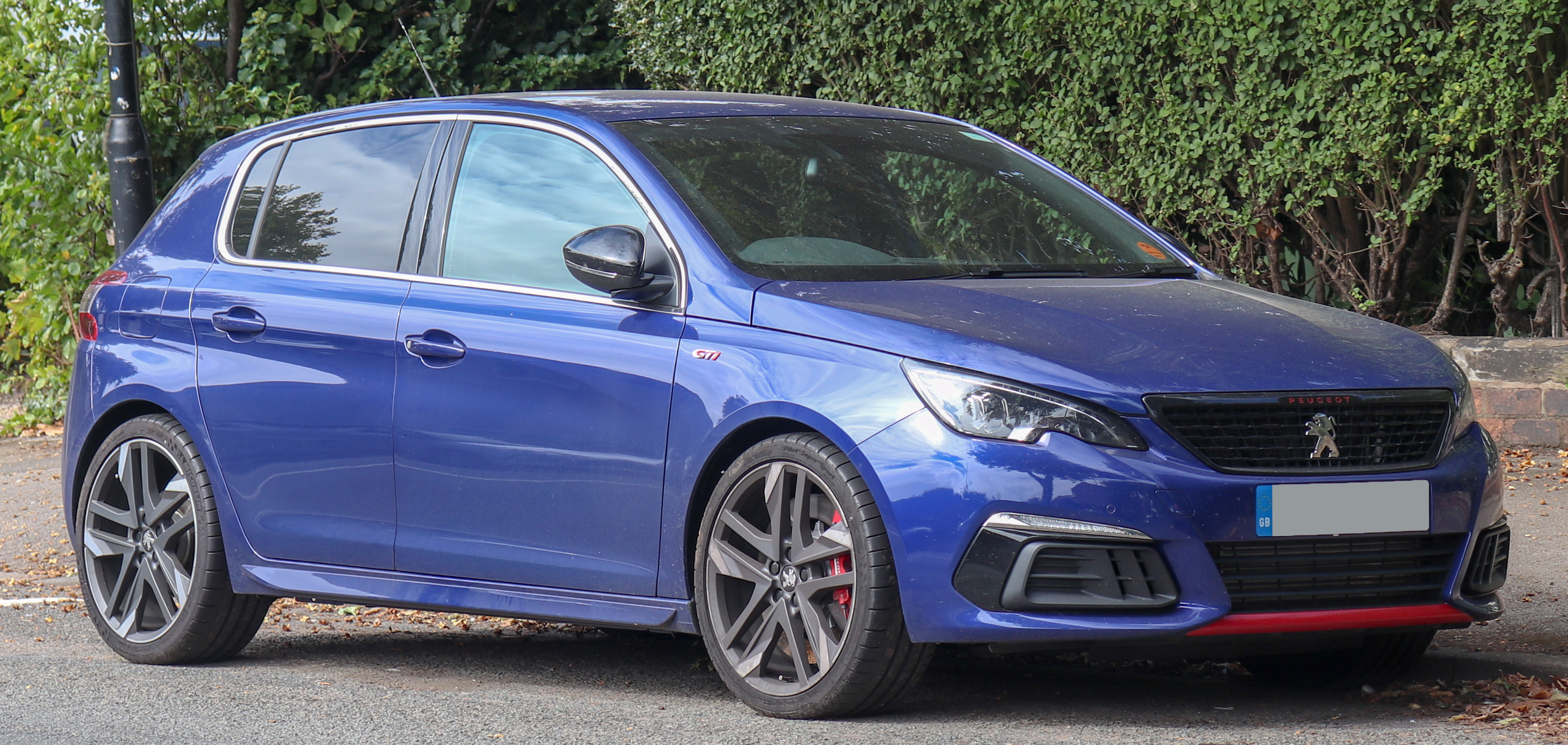 2018 Peugeot 308 GTi Turbo 1.6 Front Taken in Leamington Spa